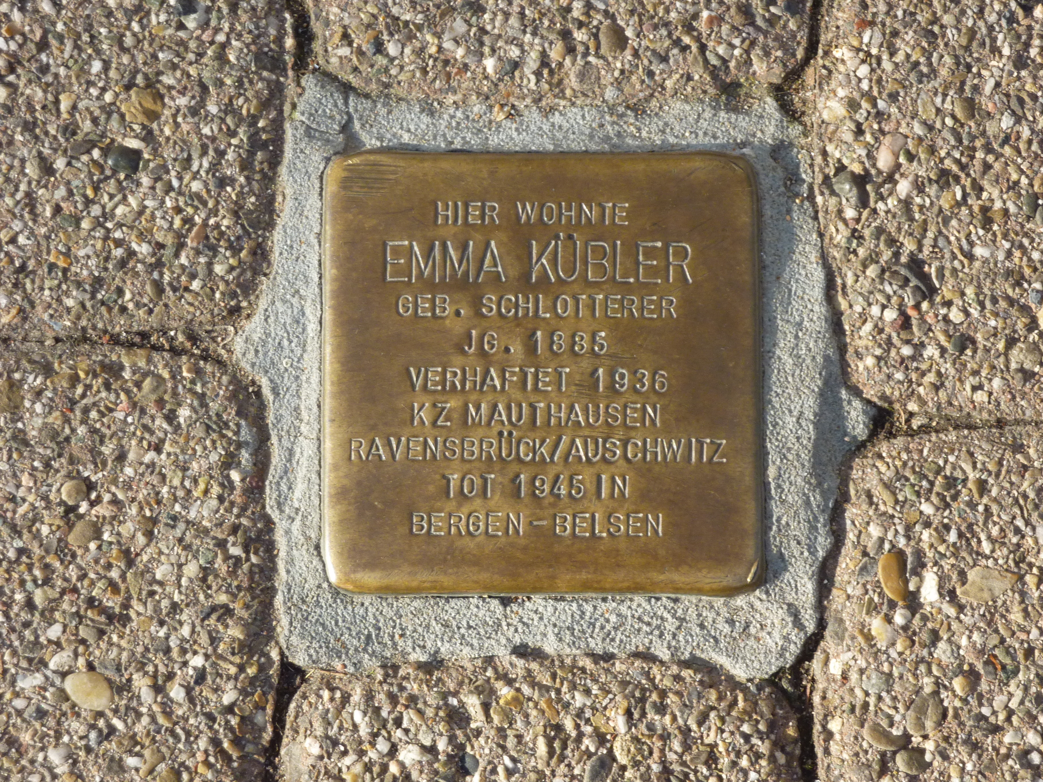 Stolperstein for Emma Kübler, located at Luisenstraße 7, Badenweiler, Germany.